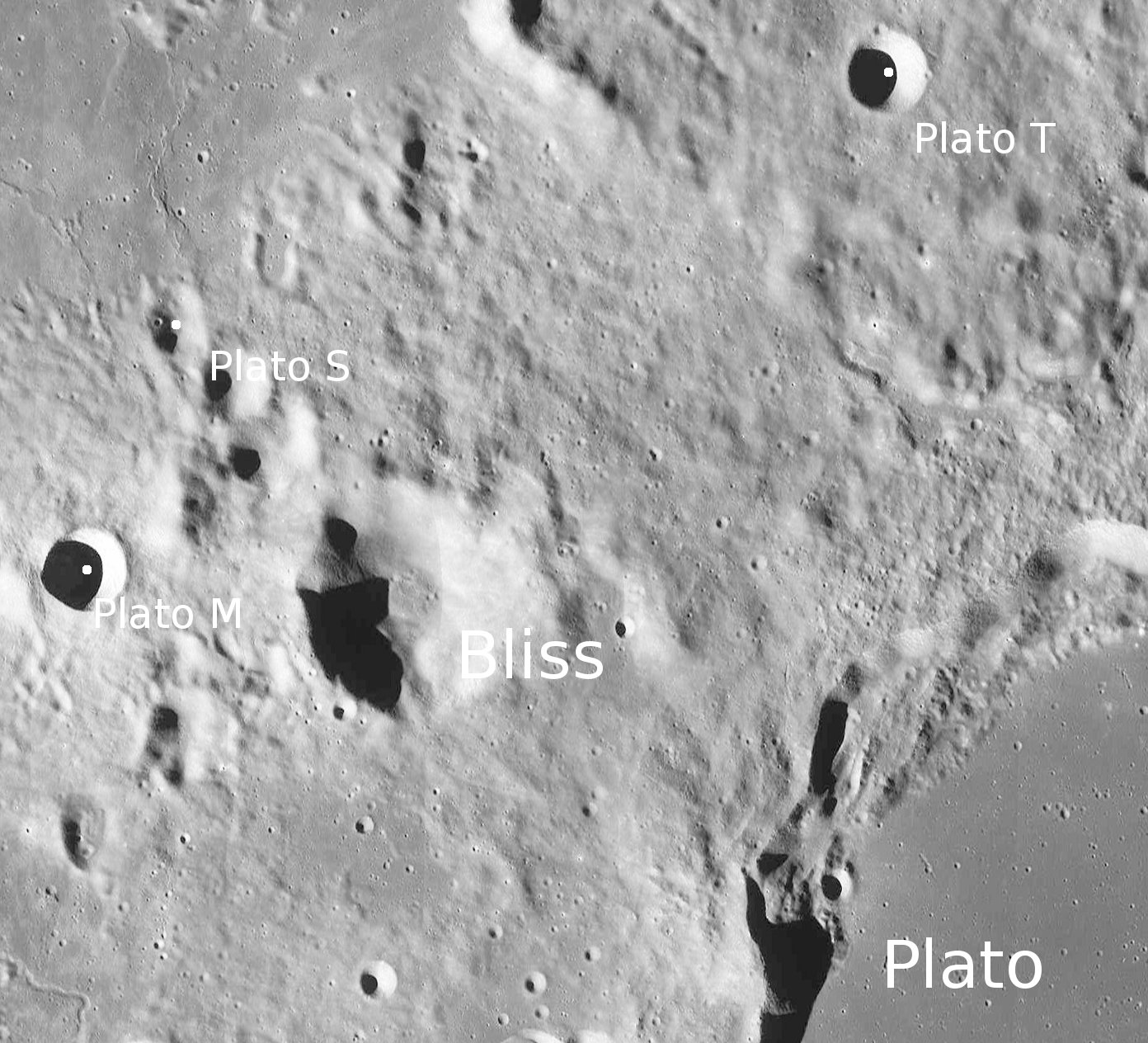 Crater Bliss with wall of Plato at the lower right corner (detail of LRO - WAC global moon mosaic; Mercator projection)